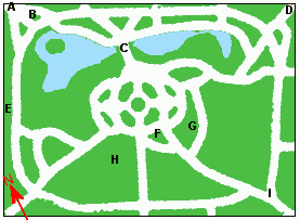 Hand drawn map of St Stephen's Green in Dublin, with features labelled: A - Fusilier's Arch B - O'Donovan Rossa C - O'Connell Bridge D - WolfeTone & Famine Memorial E - Lord Ardilaun F - Markievicz bust G - Children's playground H - Bandstand I - Three Fates